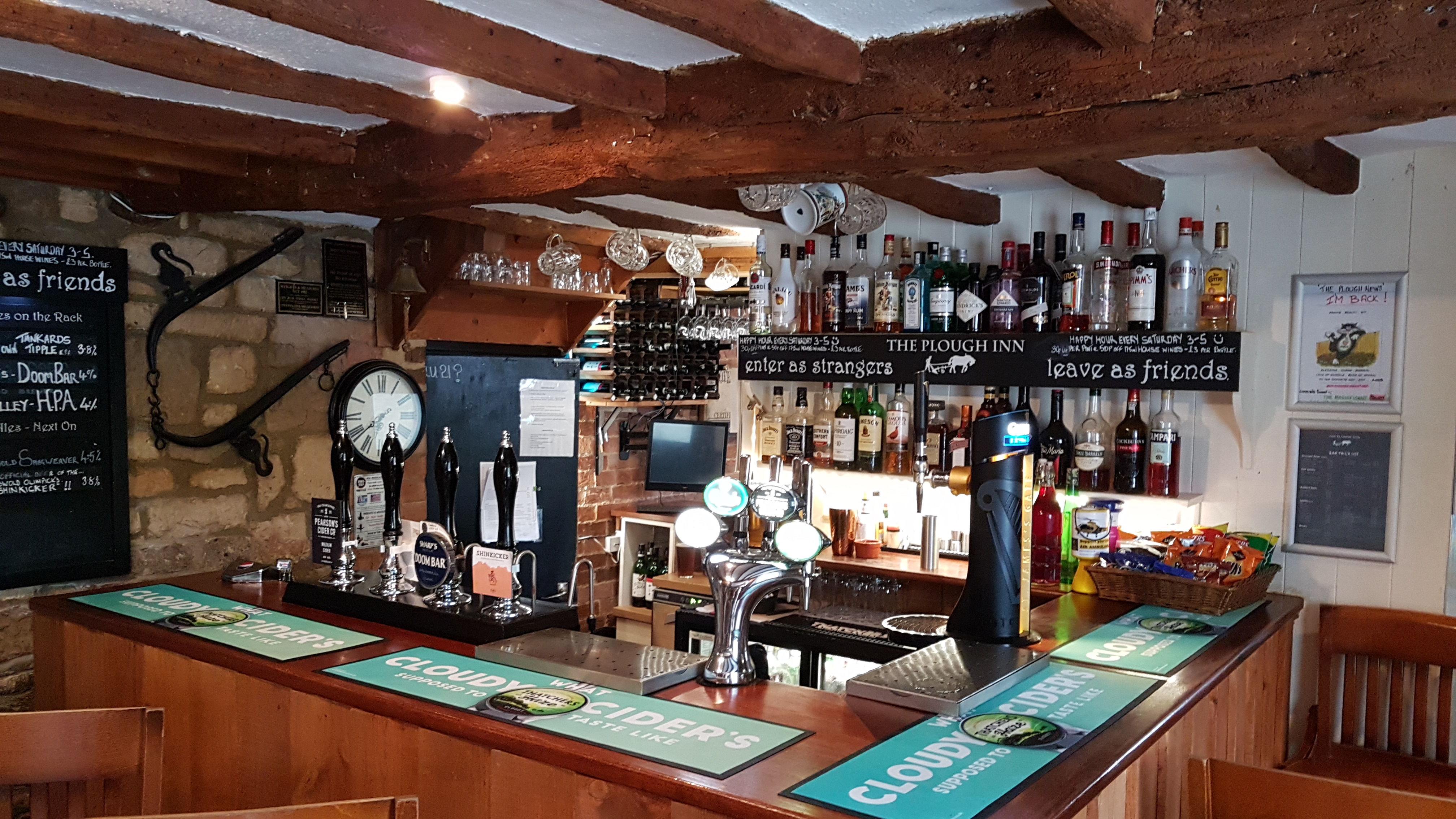 Interior of the Plough Inn pub